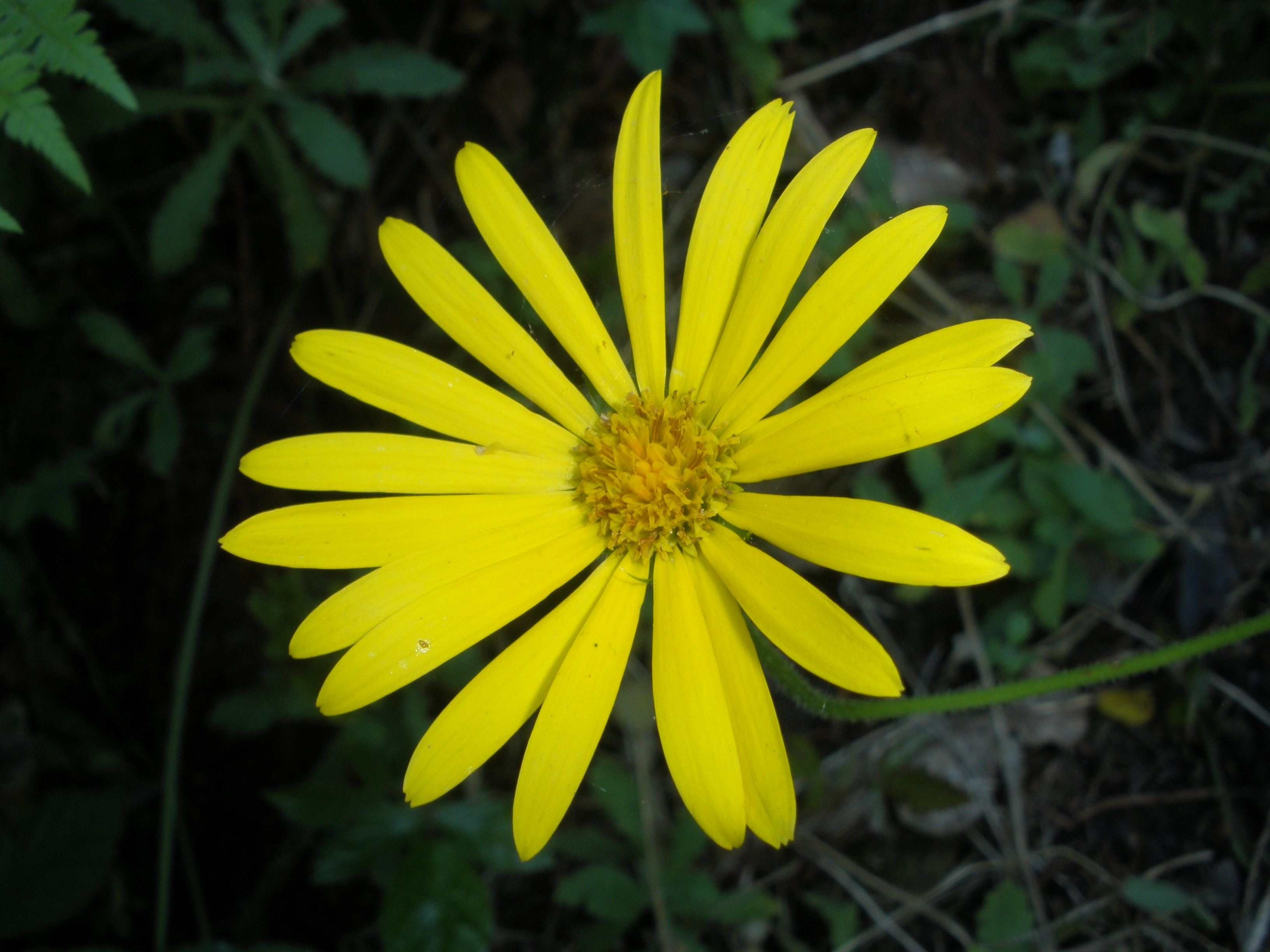 Doronicum carpetanum, Sunbilla, Nafarroa